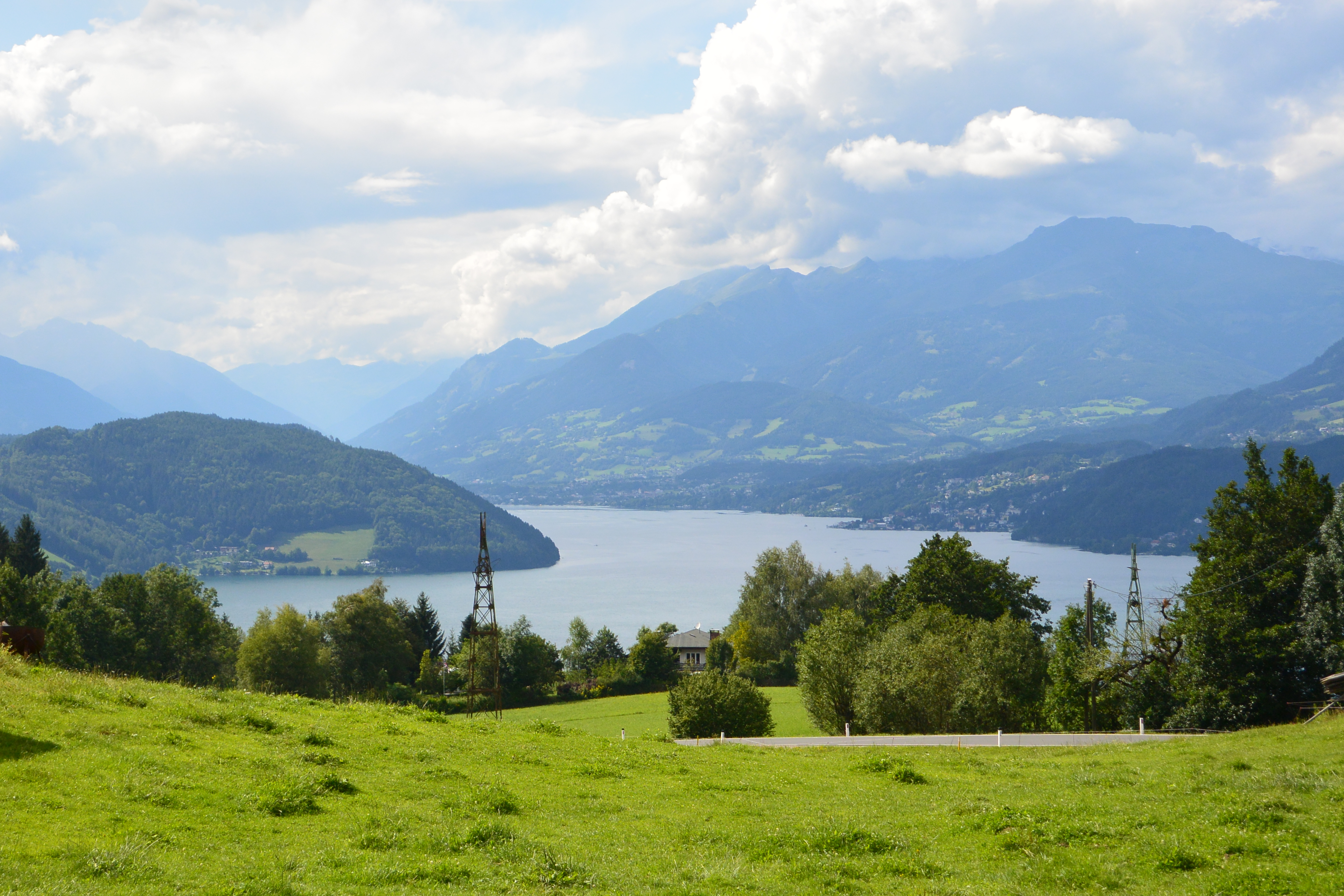 View from Glanz in the community of Ferndorf to the Millstätter See